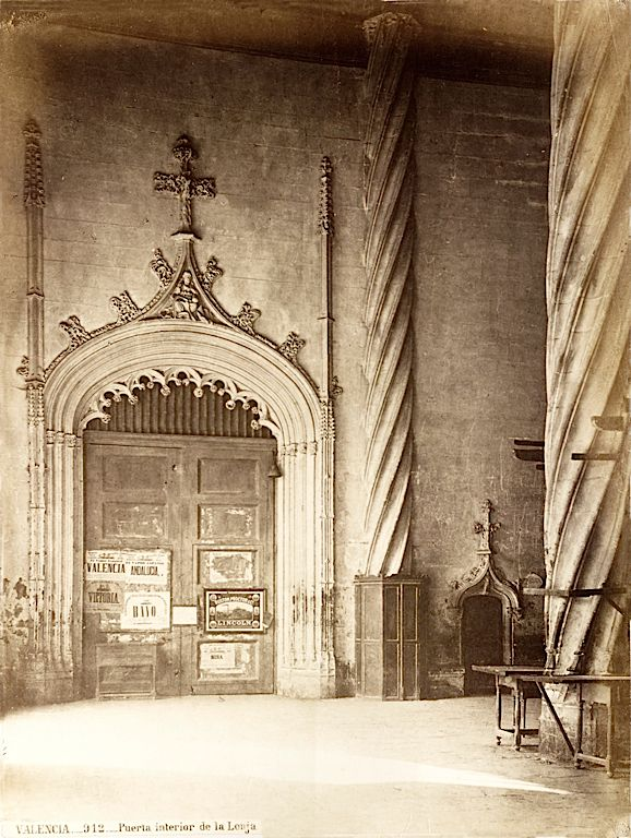 The Lonja de la Seda by the Catalan architect Pere Compte was built between 1482 and 1533 as the silk exchange and is a fine example of Flamboyant Flemish Gothic style. For centuries, Valencia was an important producer and international exporter of silk textiles, employing twenty five thousand workers by the late eighteenth century. The spiral fluted columns of this contracting hall support a magnificent star-ribbed vault. The bills pasted on the door include one for an American or British steamship company. (Julio Ainaud for the Laurent Company)